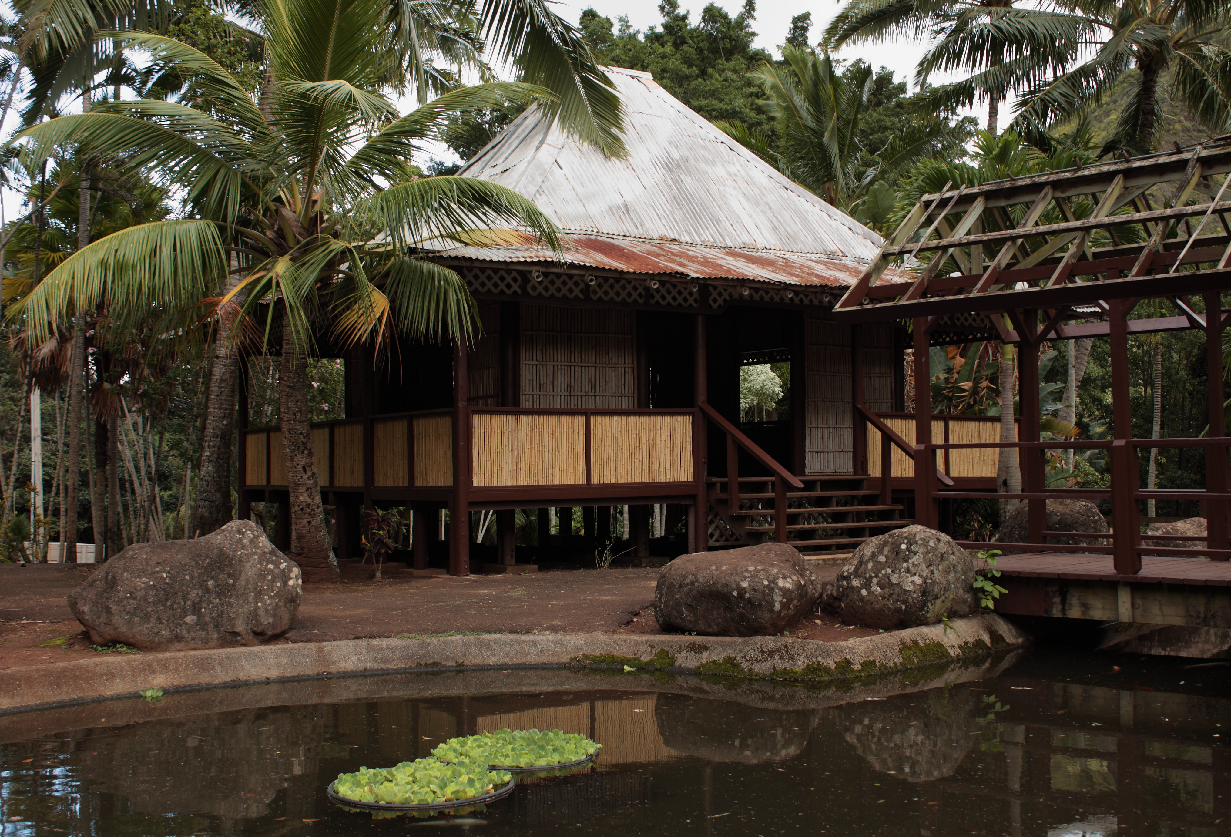 Interpretive sign: "The Bahay Kubo, or Nipa Hut represents a Filipino range house. The Filipino farmer lives and rests within such a dwelling near his rice fields during preparation, planting and harvesting seasons. The Bahay Kubo offers a welcome refuge from the hot sun and frequent thunderstorms. In the Philippines, the Bahay Kubo is made of bamboo, with sturdy oak trees as posts, and nipa leaves as roofing. A creek runs nearby, bringing water for domestic and irrigation uses, and supporting fish as a food source. Ornamental plants surround the house and fruit trees grow on the hillside." Location: Filipino Exhibit, Heritage Gardens, Kepaniwai Park, Iao Valley, Maui, Hawaii